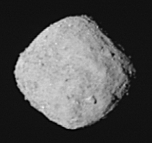 This “super-resolution” view of asteroid Bennu was created using eight images obtained by NASA’s OSIRIS-REx spacecraft on Oct. 29, 2018 from a distance of about 205 miles (330 km). The spacecraft was moving as it captured the images with the PolyCam camera, and Bennu rotated 1.2 degrees during the nearly one minute that elapsed between the first and the last snapshot. The team used a super-resolution algorithm to combine the eight images and produce a higher resolution view of the asteroid. Bennu occupies about 100 pixels and is oriented with its north pole at the top of the image.